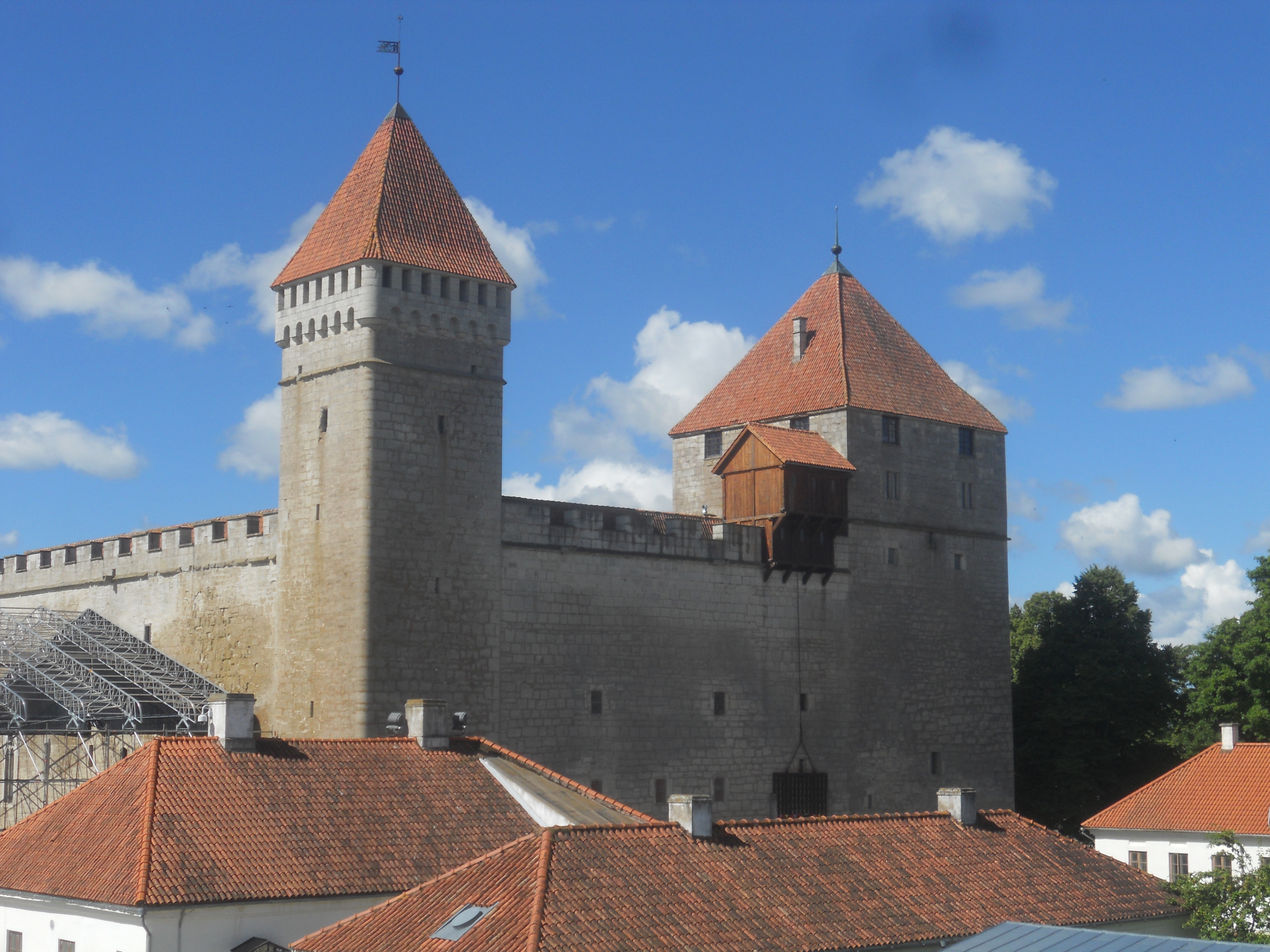 The episcopal castle in Kuressaare